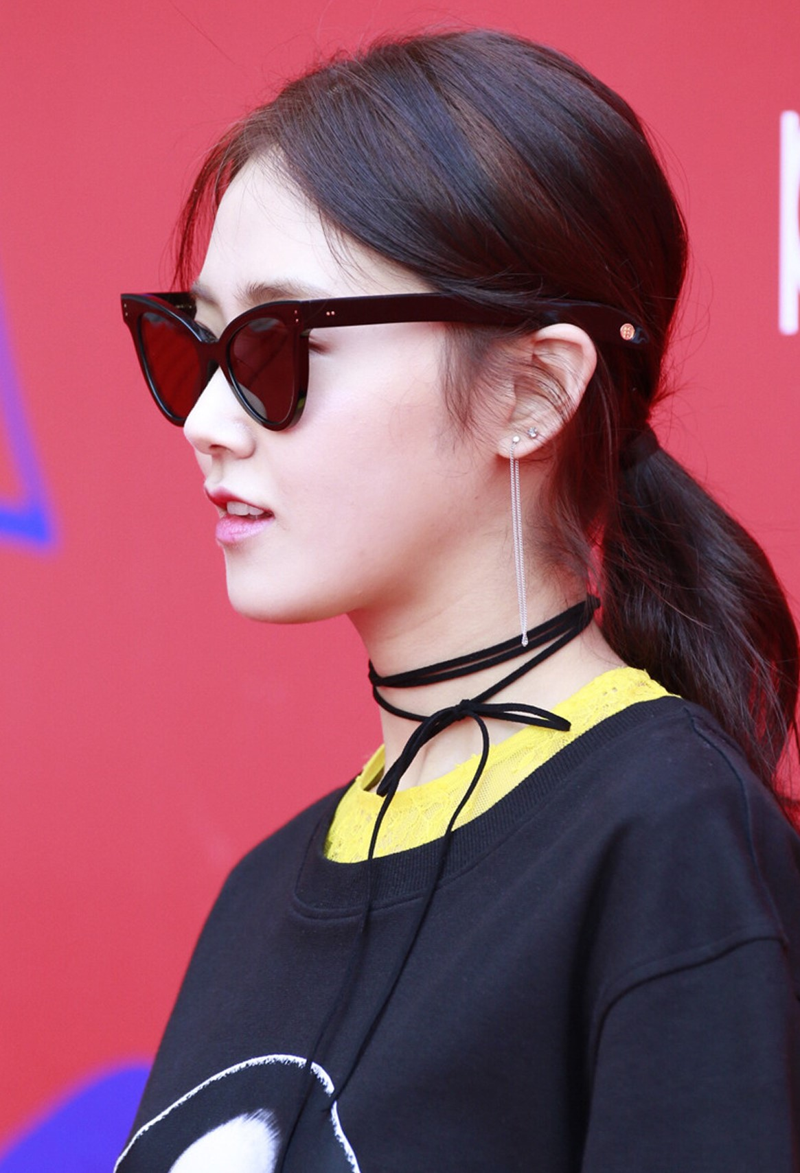 Heo Ga-yoon at the Seoul Fashion Week on March 24, 2016.